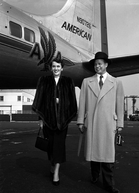 Billy Daniels and wife, Marsha Braun Daniels at airport in Los Angeles, Calif., 1950 Publication: Los Angeles Daily News Publication date: 1950